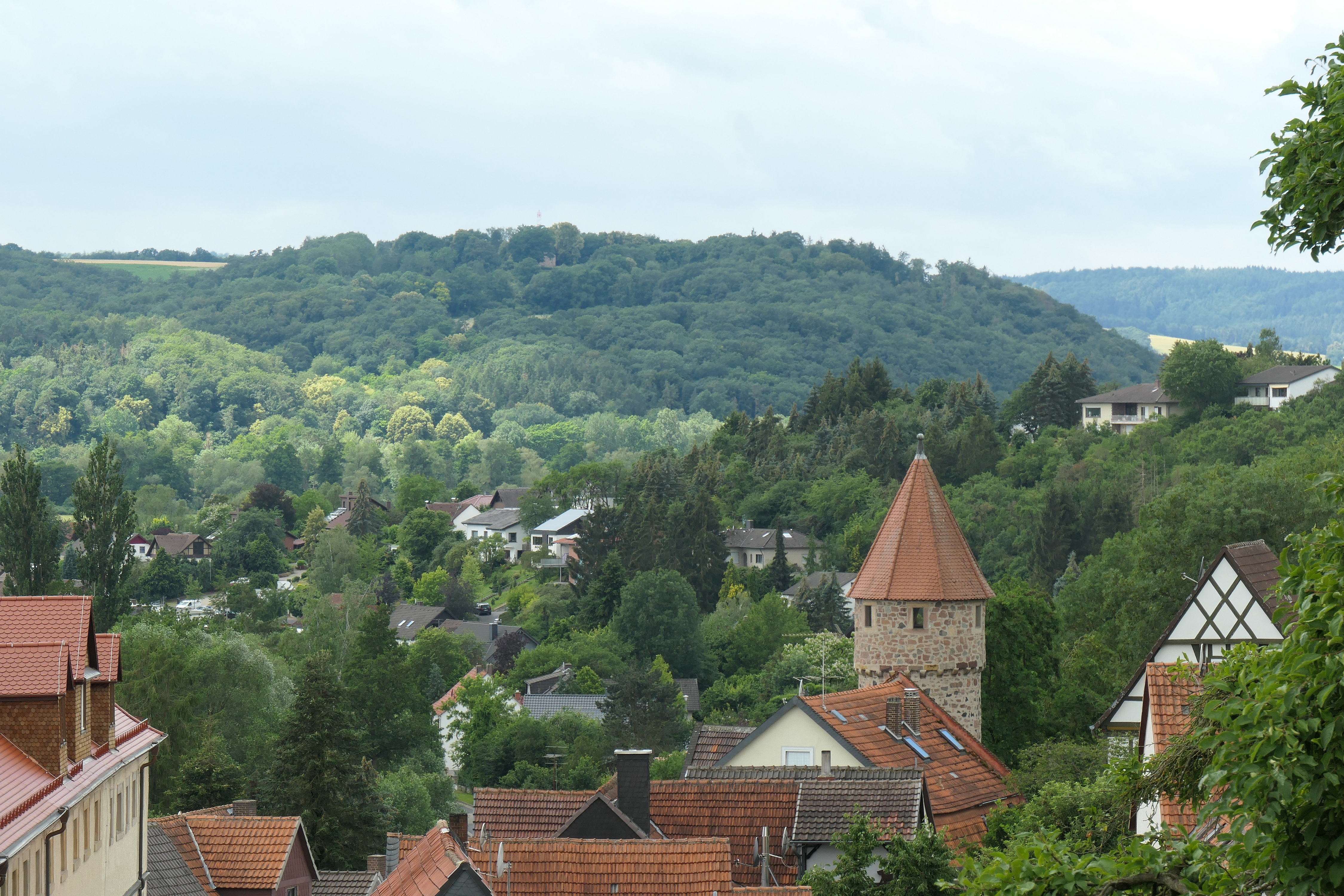 Büraberg, Fritzlar, Germany - view from Fritzlar